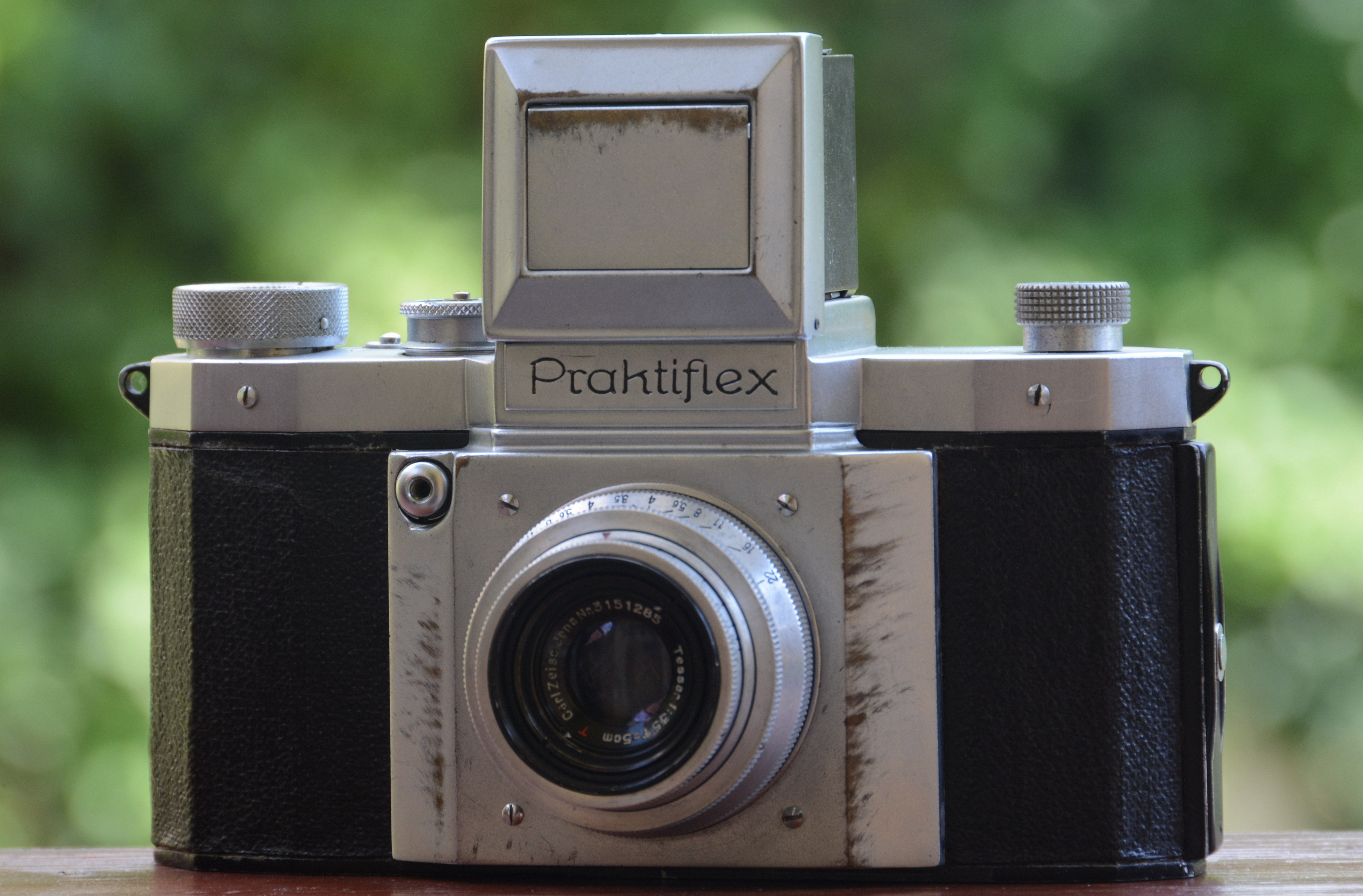 Praktiflex, 2nd generation (1947)